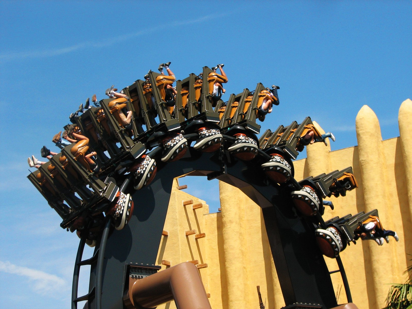 The Looping of the Black Mamba in Phantasialand